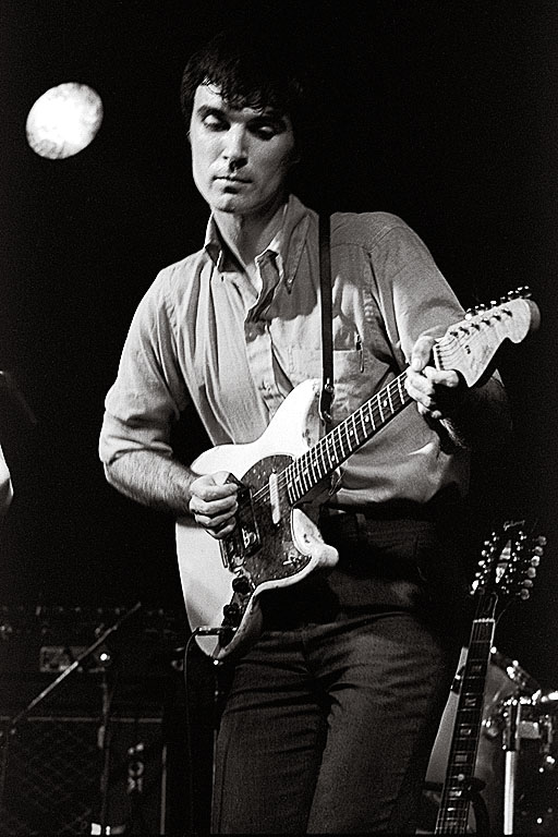 David Byrne onstage with the Talking Heads, August 25, 1978 Jay's Longhorn Bar, Minneapolis, MN